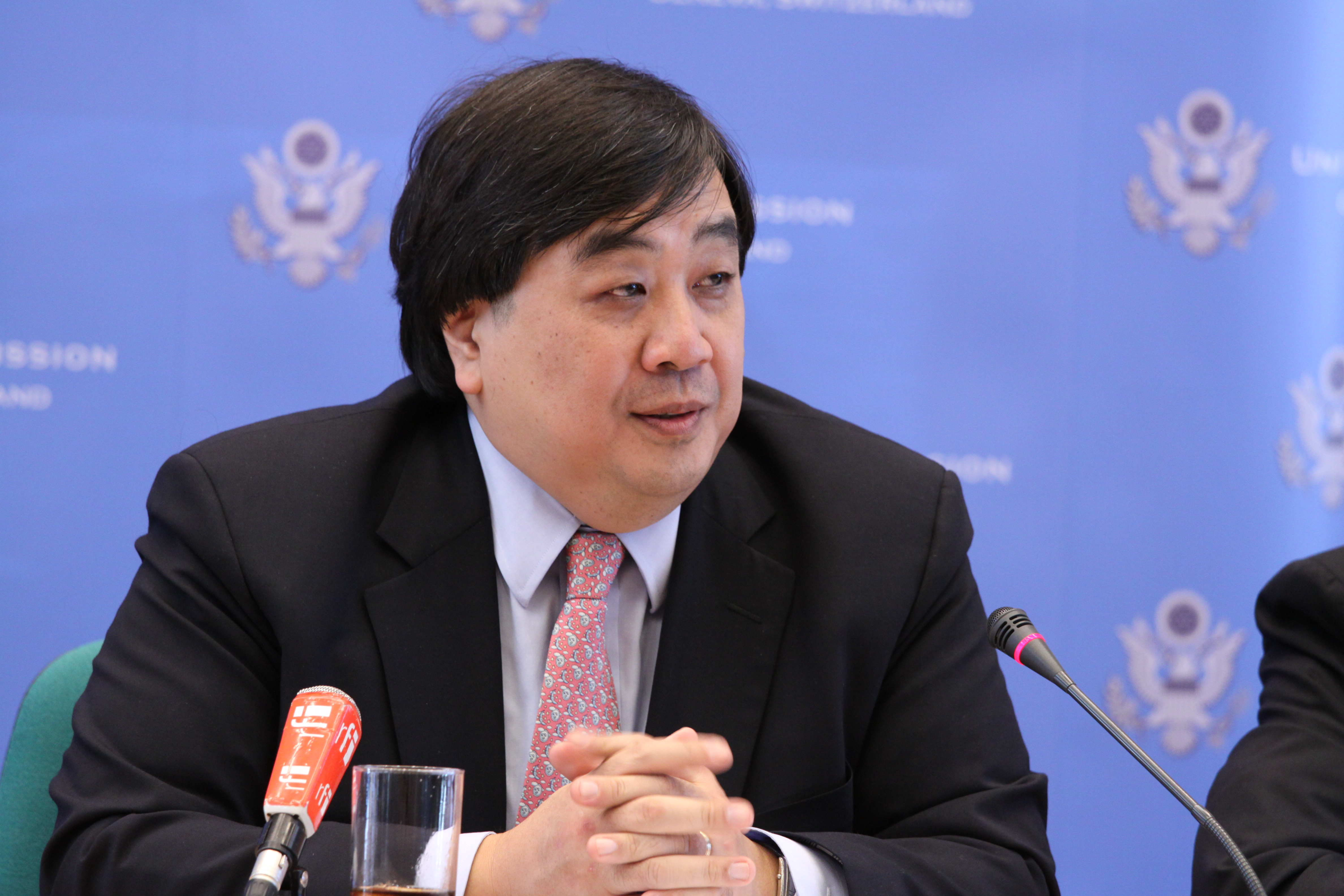 Harold Hongju Koh, Legal Advisor, U.S. Department of State, speaking at a September 28 Press conference at the U.S. Mission to the United Nations in Geneva. Credit: U.S. Mission / Eric Bridiers